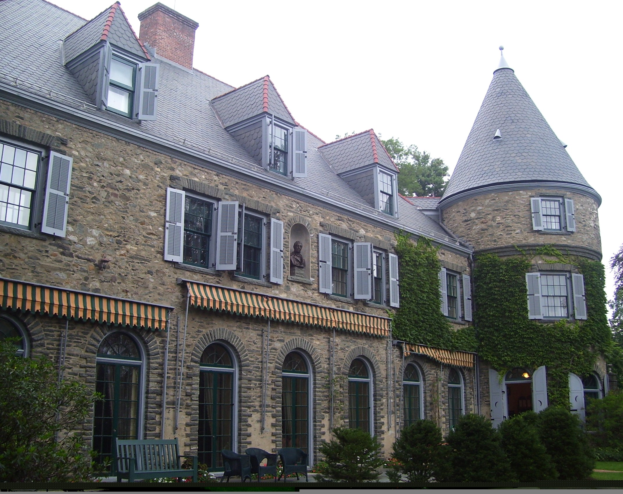 Grey Towers National Historic Site, the home of Gifford Pinchot, conservationist, first chief of the U.S. Forest Service and two-time Governor of Pennsylvania.